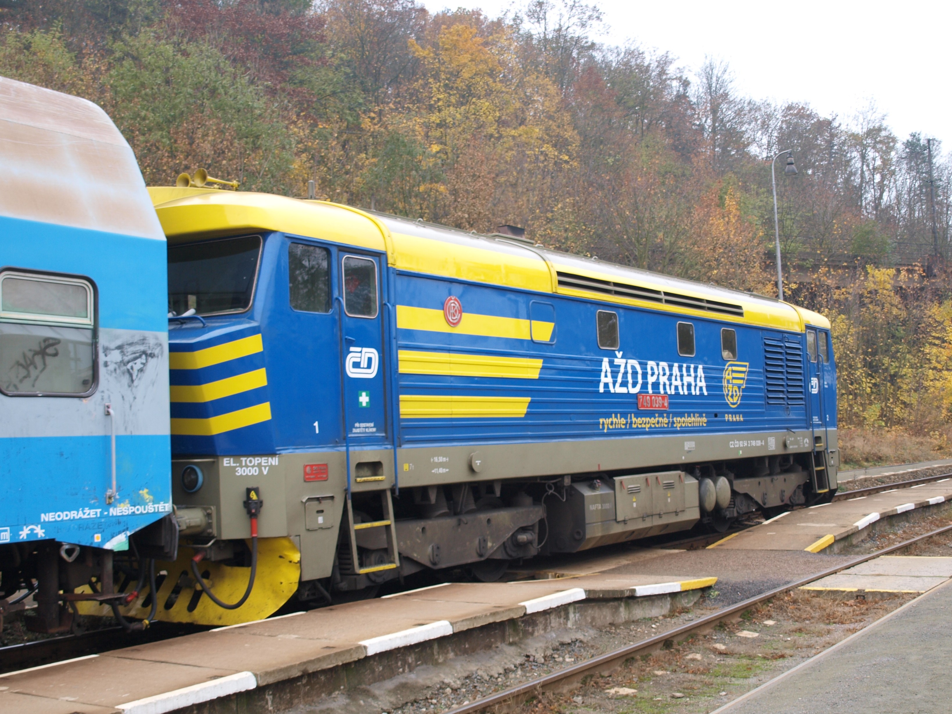 Locomotive Class 749; Praha-Braník train station